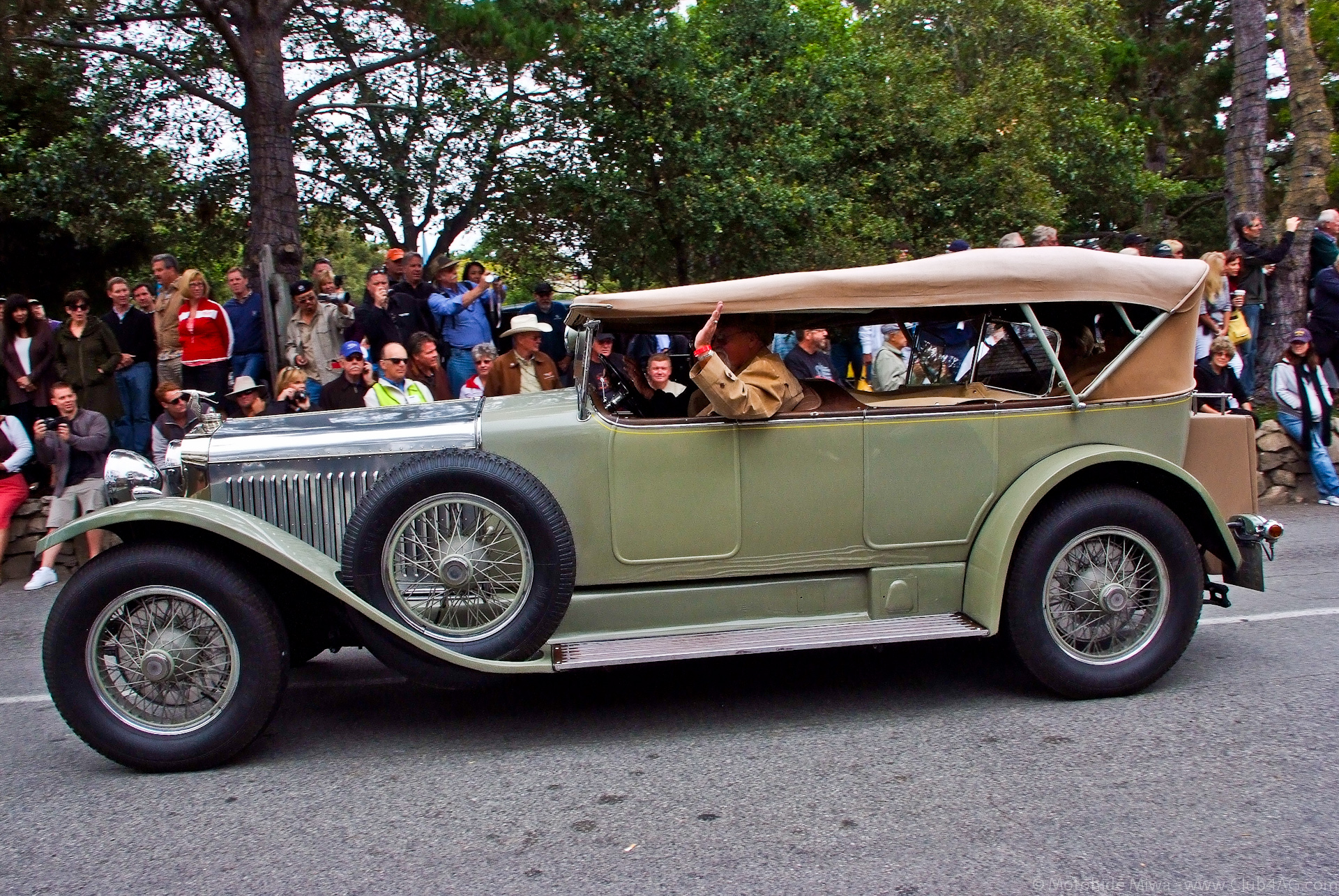 Monterey_Historics_2011-10-130